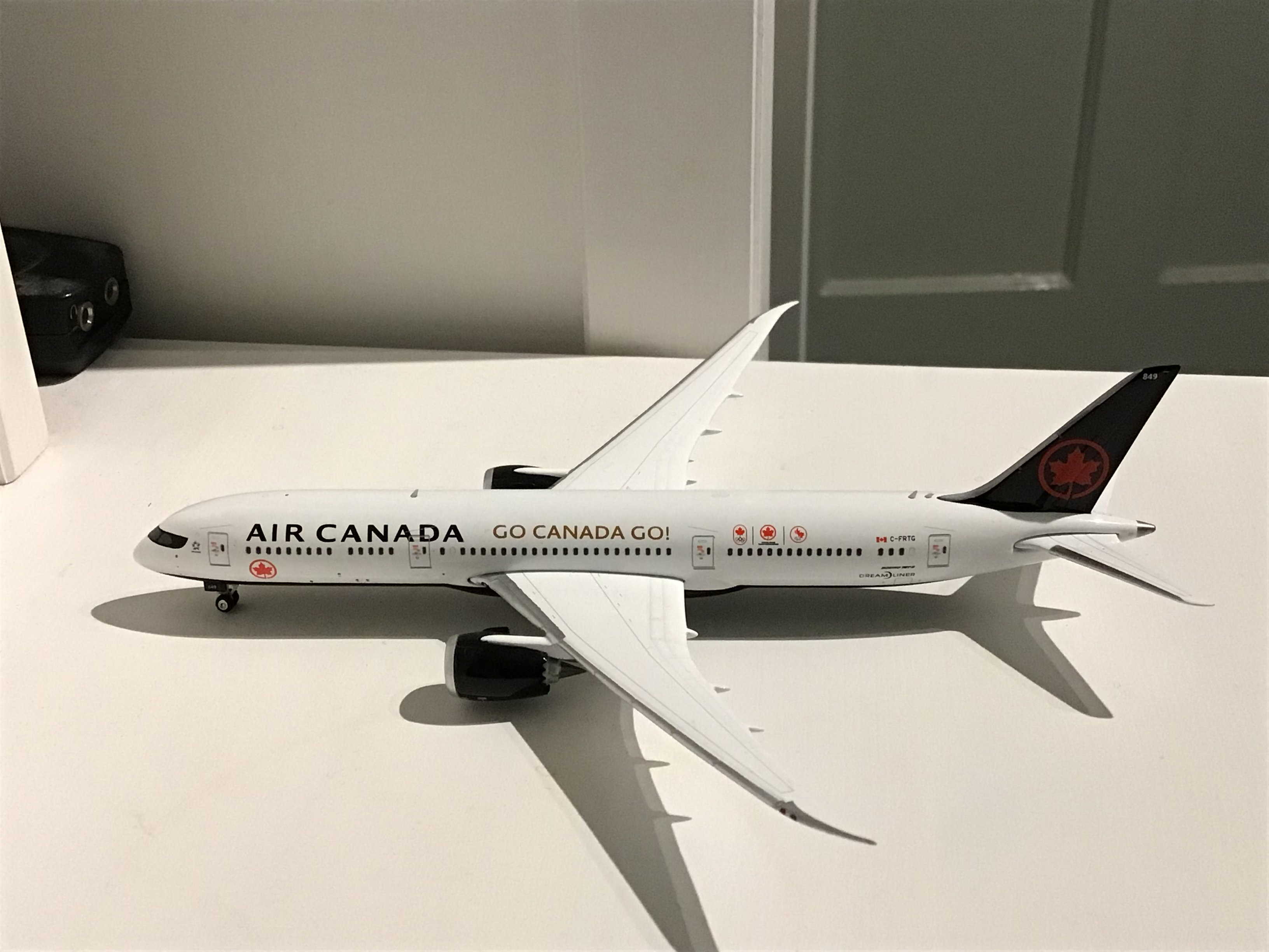 A die cast Boeing 787-9 Dreamliner of Air Canada, manufactured by Phoenix Model. This 787 is wearing the special “Go Canada Go!” livery worn by 787-9 C-FRTG in 2018 to celebrate Canada taking part in the Winter Olympics.